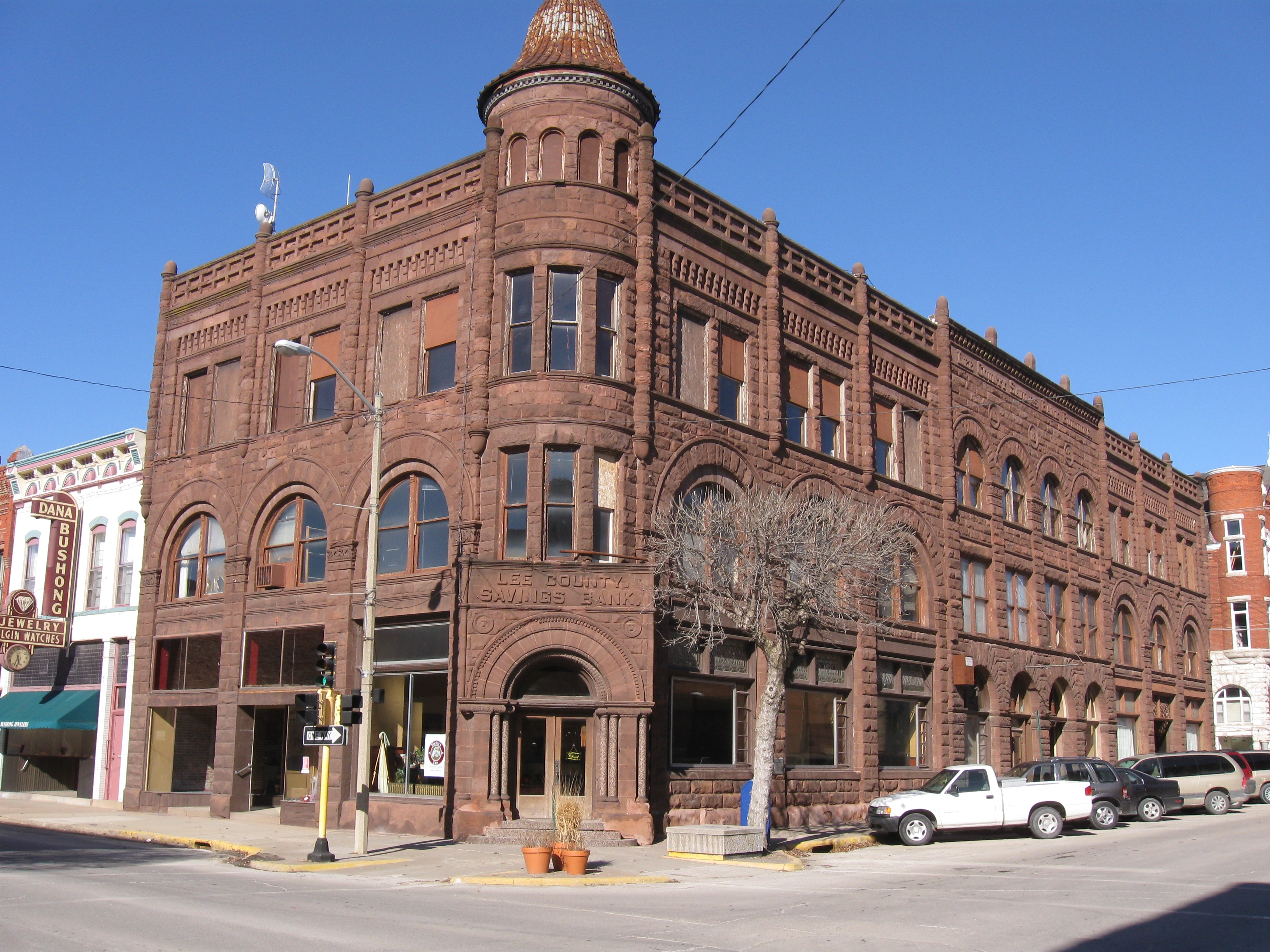 Lee County Savings Bank, Fort Madison, Iowa. on the NRHP Billwhittaker (talk) 21:34, 9 February 2009 (UTC)